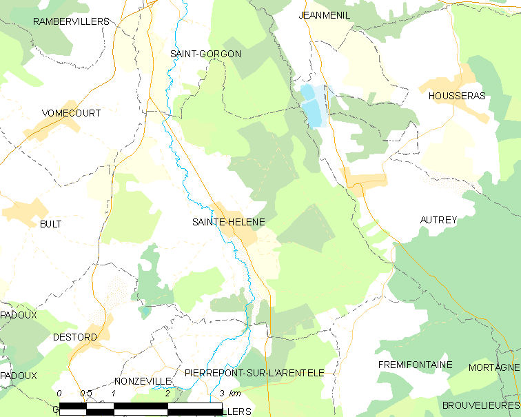 Map of French municipality Sainte-Hélène